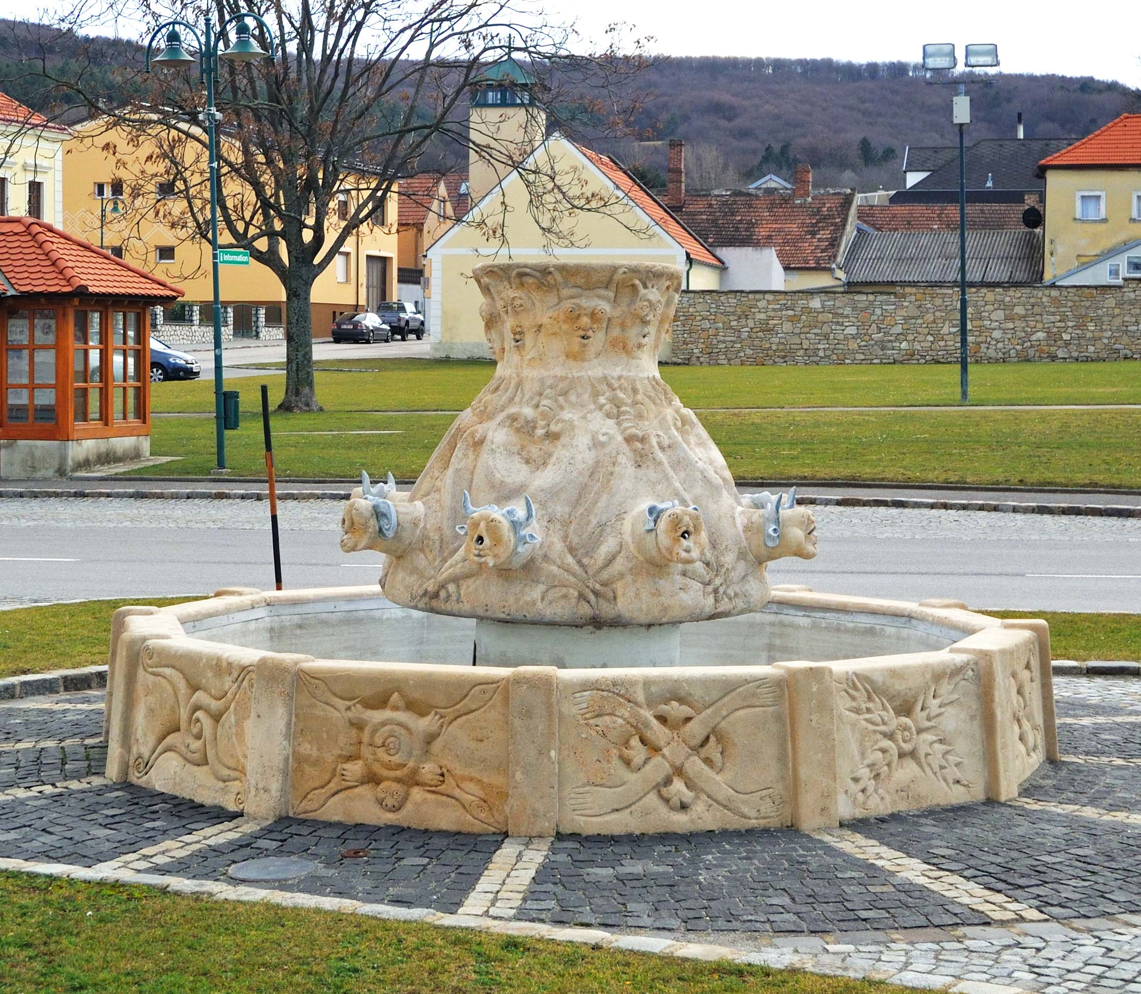 Fountain of the sculptor Maria Biljan-Bilger in Sommerein, Lower Austria, Austria